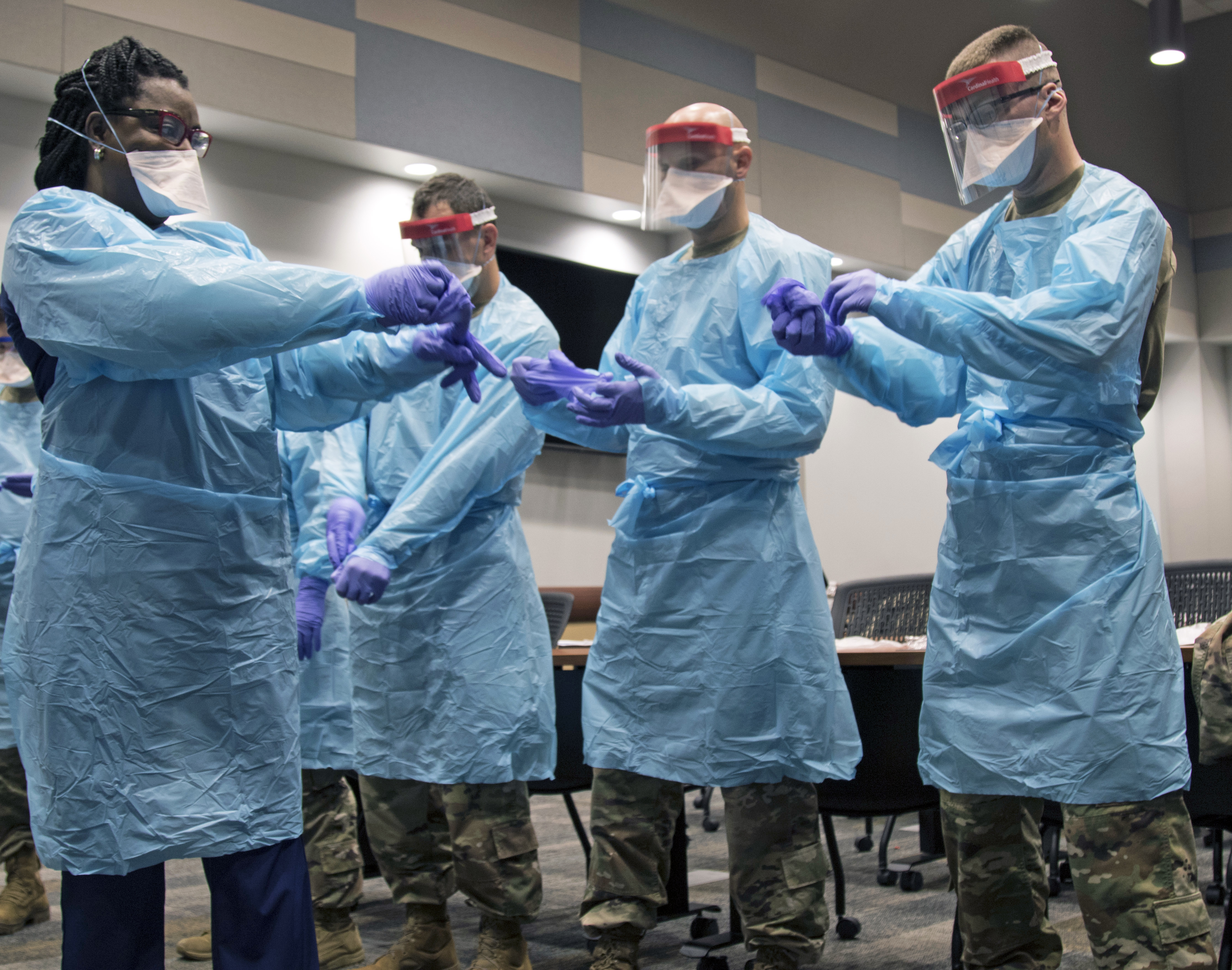 Members of the Florida National Guard (FLNG) gather with local hospital staff to collaborate on donning and doffing personal protective equipment (PPE) during Task Force – Medicals’ response to the COVID-19 virus, March 17, 2020. The FLNG is mobilizing up to 500 Citizen-Soldiers and Airmen in support of the Florida Department of Health response in Broward County. (U.S. Army photo by Sgt. Leia Tascarini)